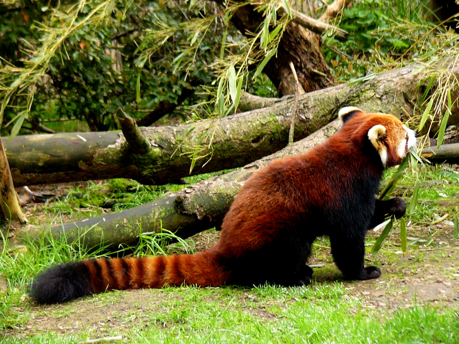 Red panda eating bamboo, Woodland Park Zoo, Seattle, WA